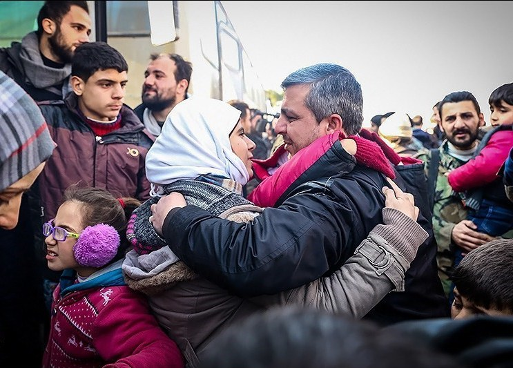 Arrival of residents of Al-Fu'ah and Kfrya to Aleppo - December 2016